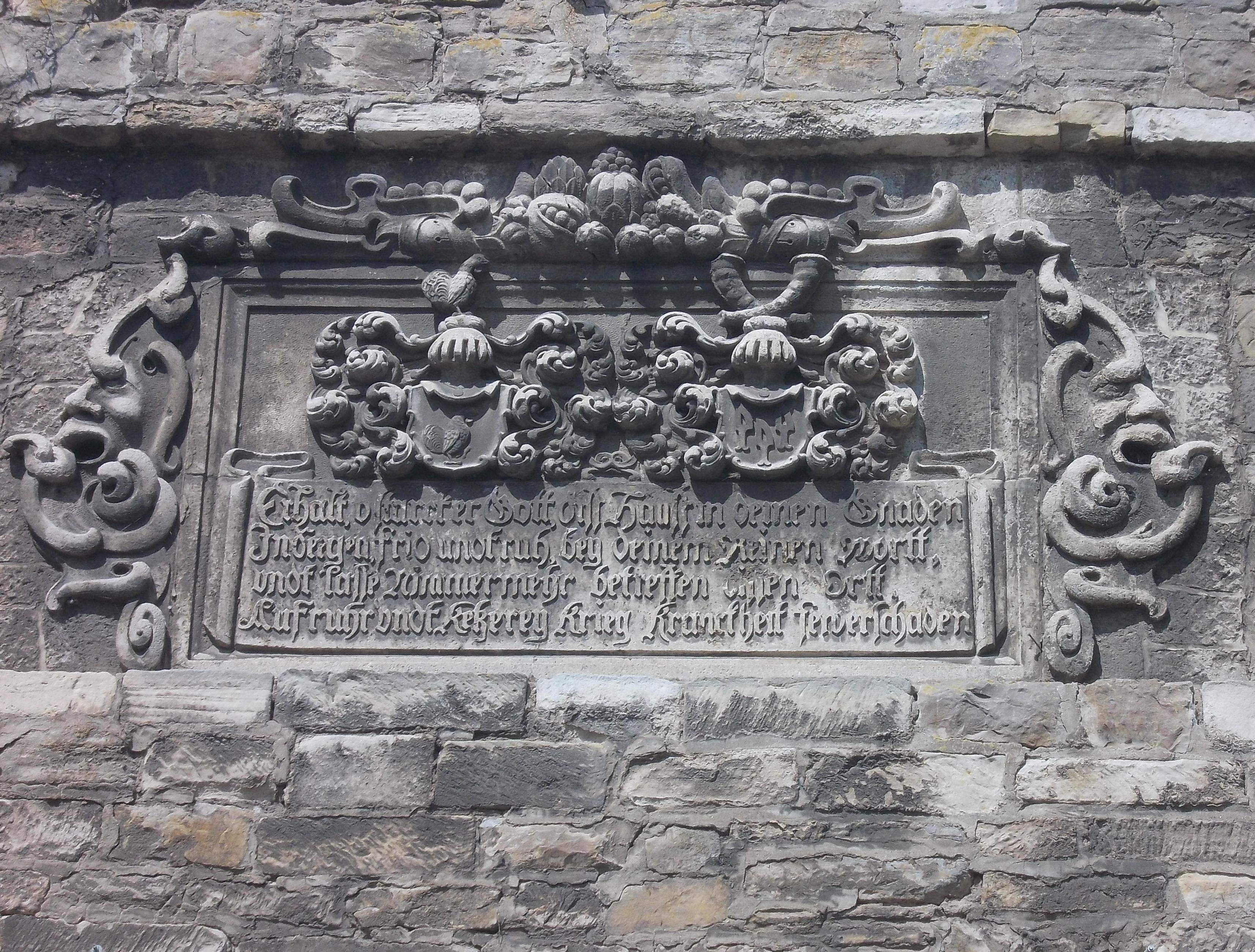 Seeburg Castle (Seegebiet Mansfelder Land, Mansfeld-Südharz district, Saxony-Anhalt)